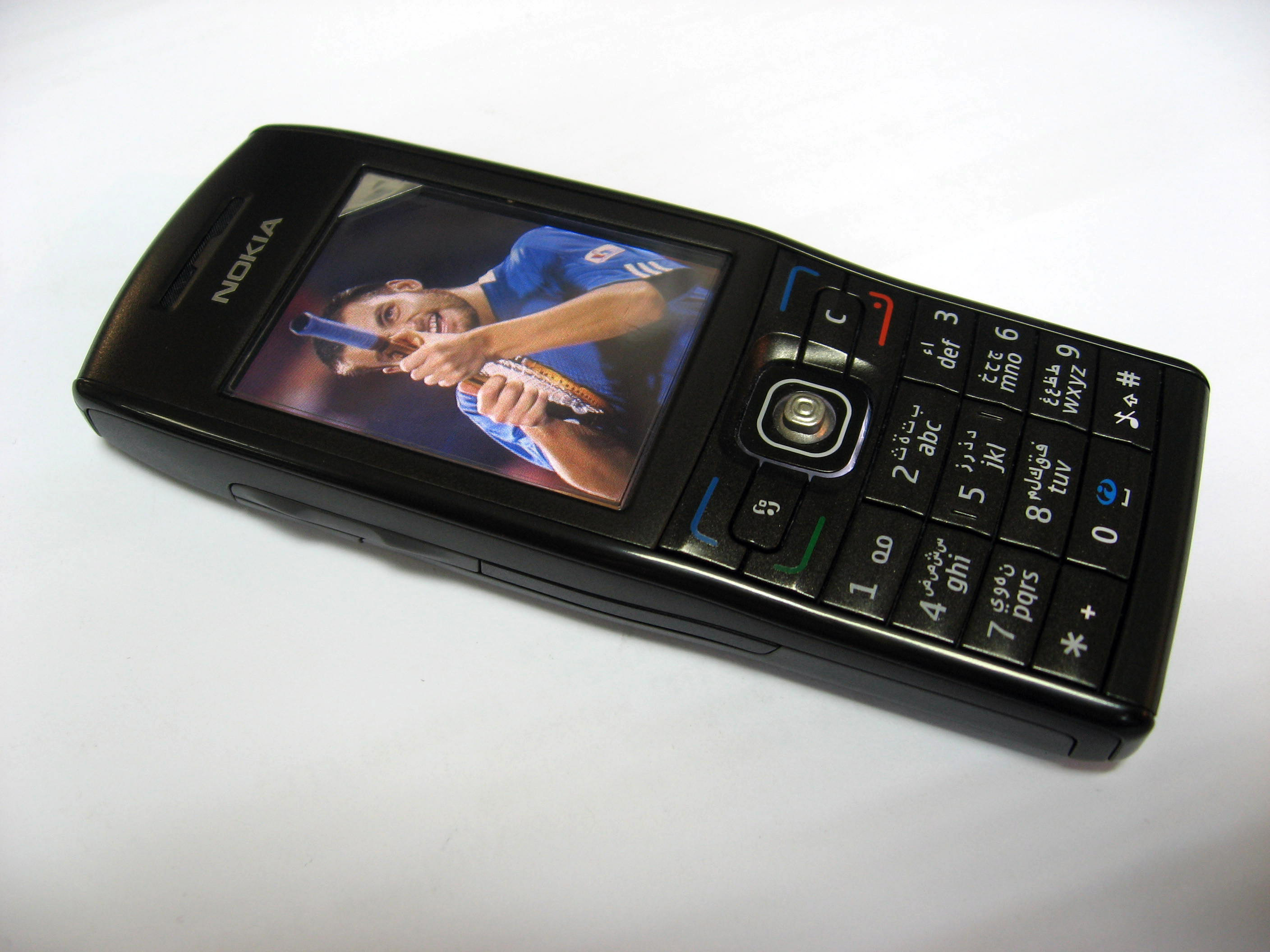 This is a photo of the Nokia E50 Metal Black (Gulf Version, with Arabic and English Keypad). This is a photo I have taken and it is free for public use, provided credits are cited.